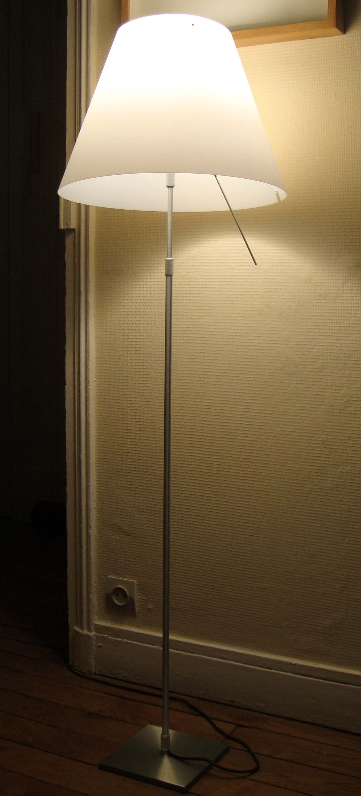 Costanza Lamp by italian designer Paolo Rizzato